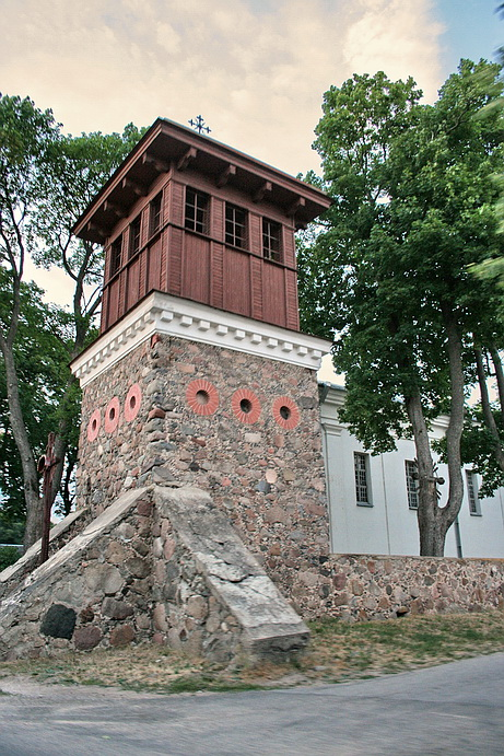 Bell tower in Giedraičiai, Lithuania